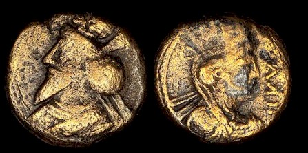 Coin of Osroes I of Parthia. The date ΗΚΥ is year 428 of the Seleucid era, corresponding to 116–117.